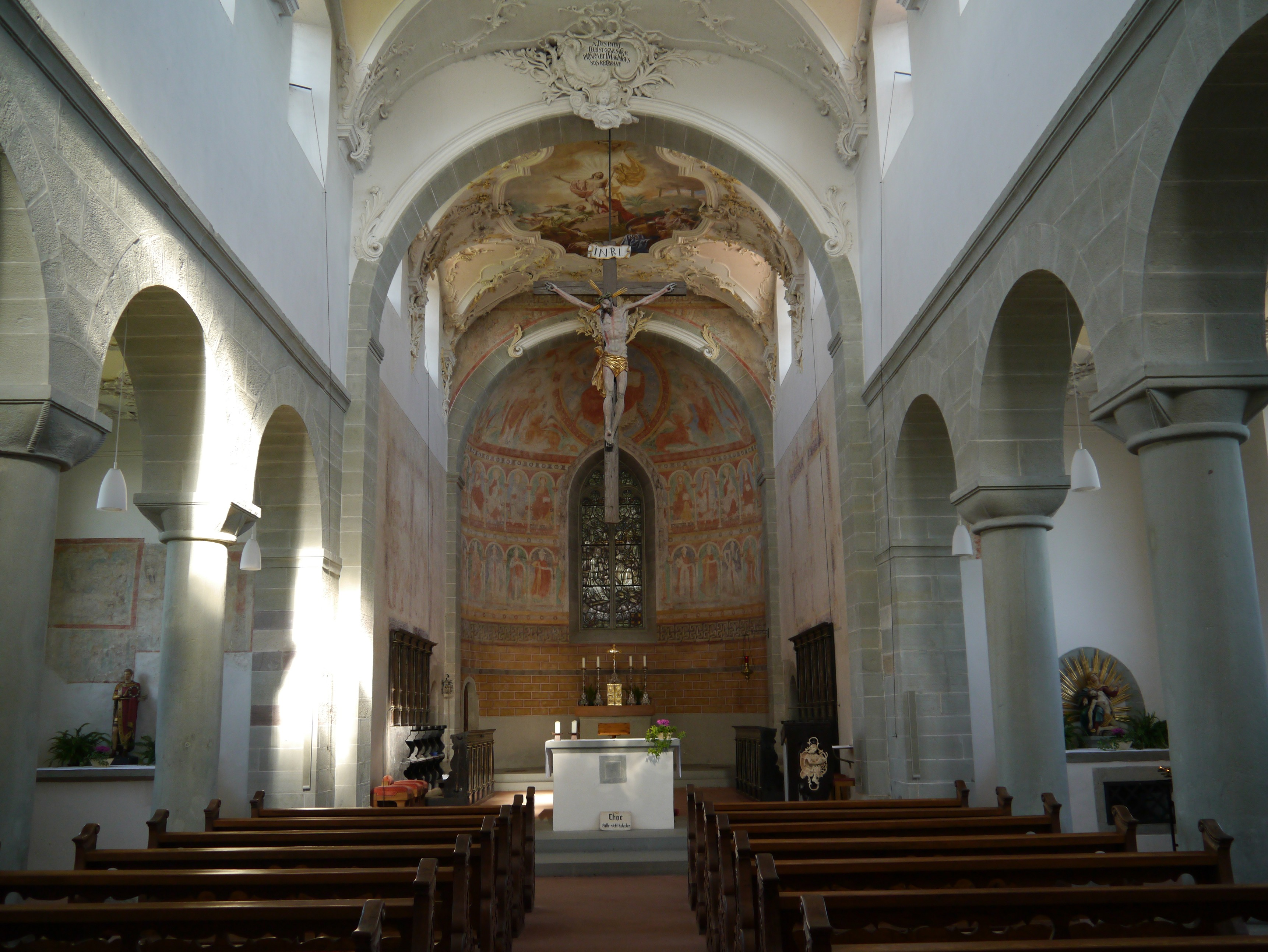 Nave of the Monastery Church of Sts. Peter & Paul, Reichenau